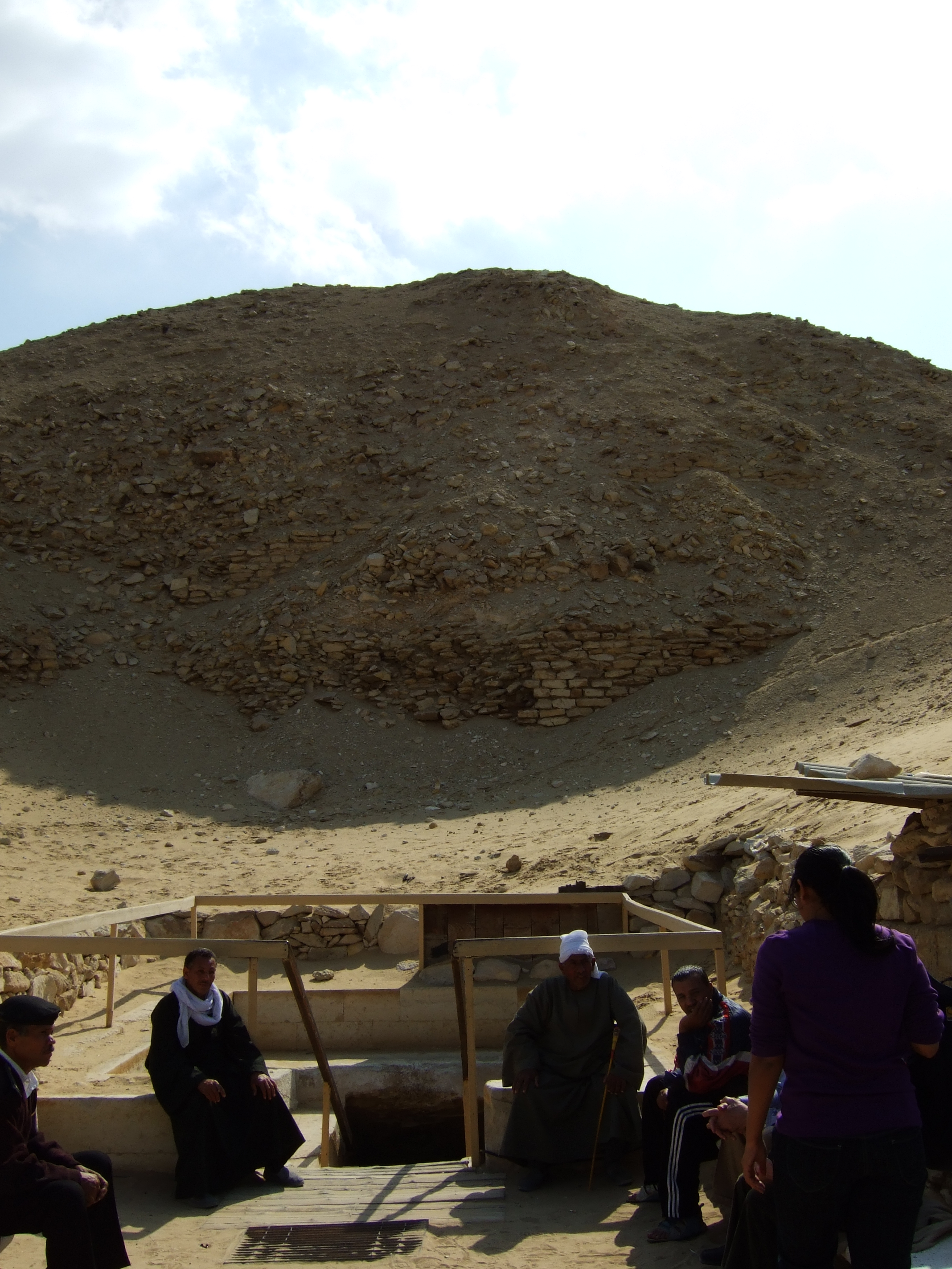 North side and entrance of the Pyramid of Teti